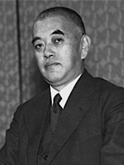 Minister of Finance Sōtarō Ishiwata (1891–1950)